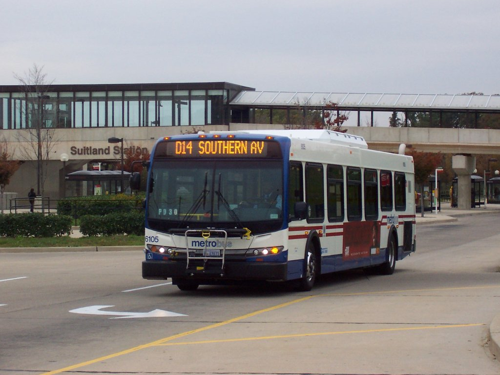 WMATA D40LFR #6105 leaving the Suitland Metrorail station.